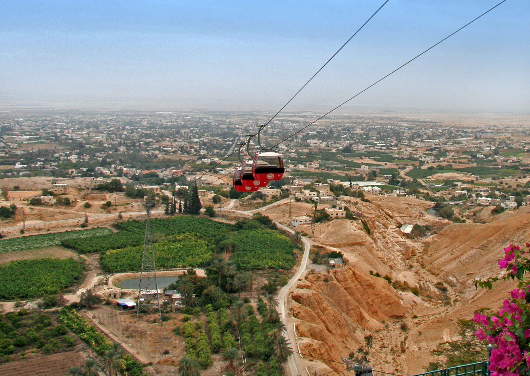 Jericho from Monastery of the Temptation (Deir El-Quarantal)